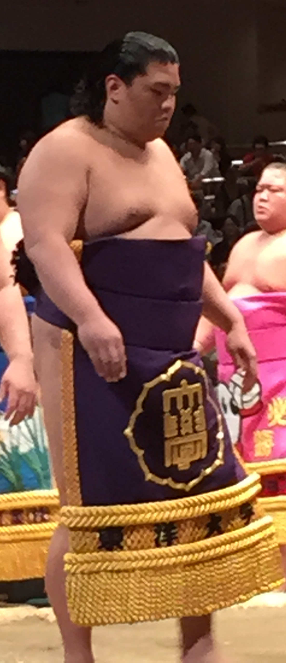 taken at 2015 Sept. tournament